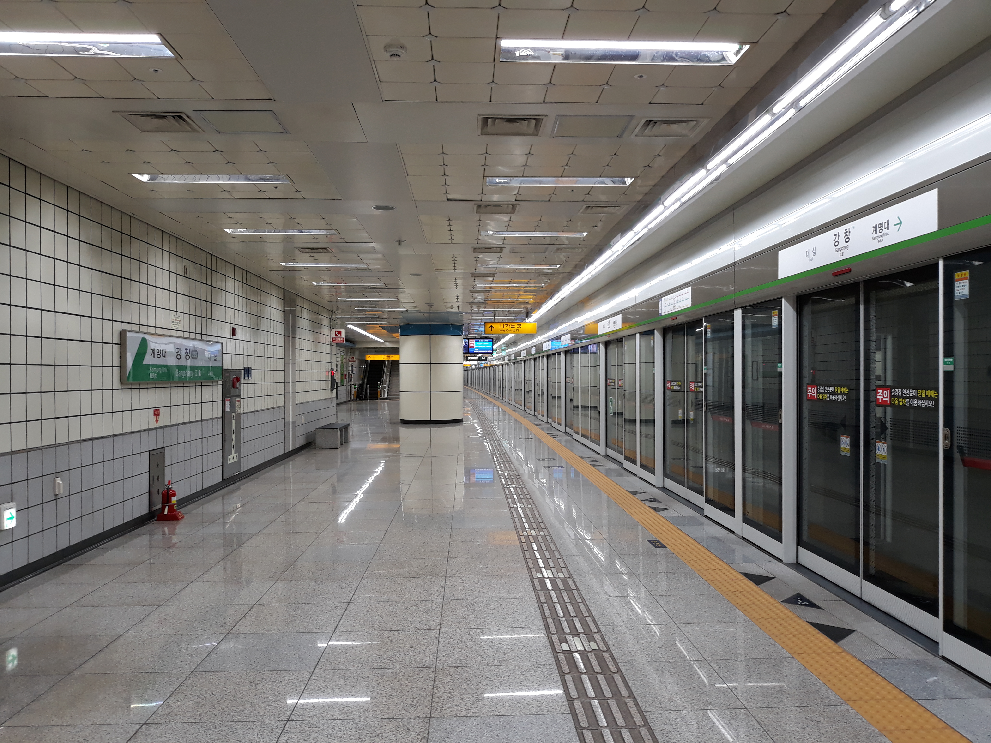 The platform at Gangchang Station on the Daegu Metro Line 2, Republic of Korea(South Korea)